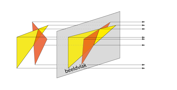 projectielijnen parallel